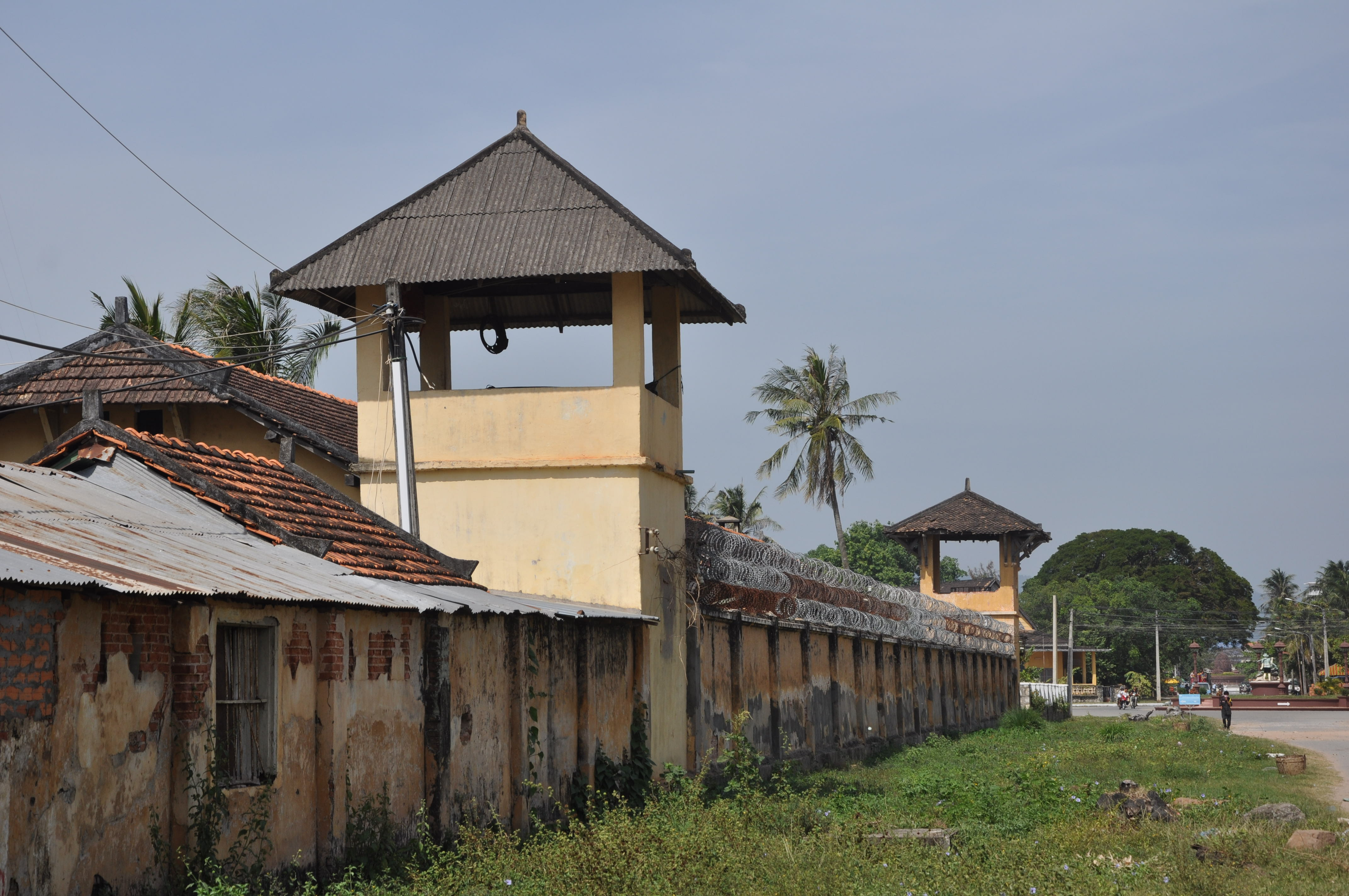 Prison in Kampot